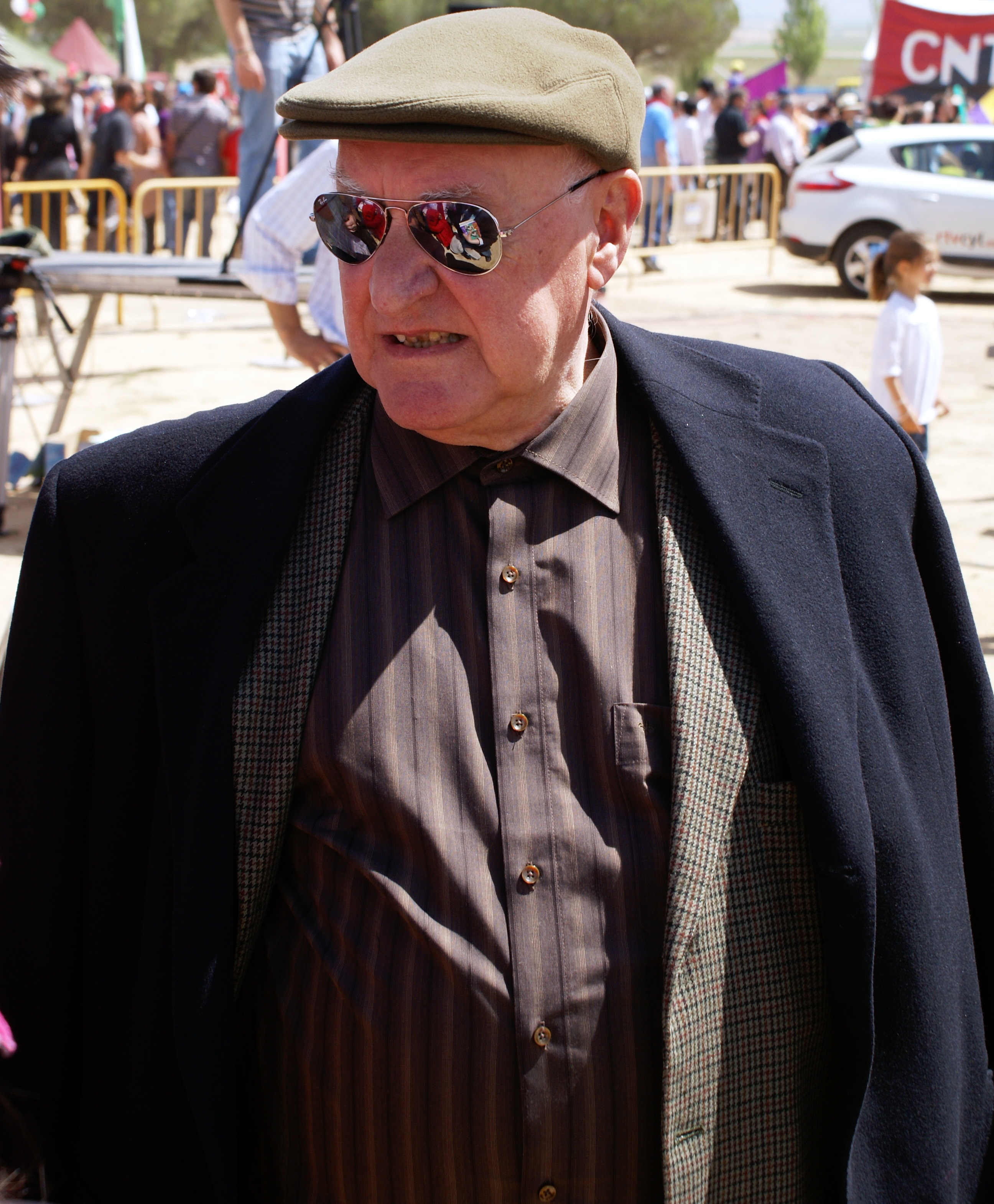 Joseph Pérez, fren historian, at Villalar de los Comuneros, during the Castile and León day.